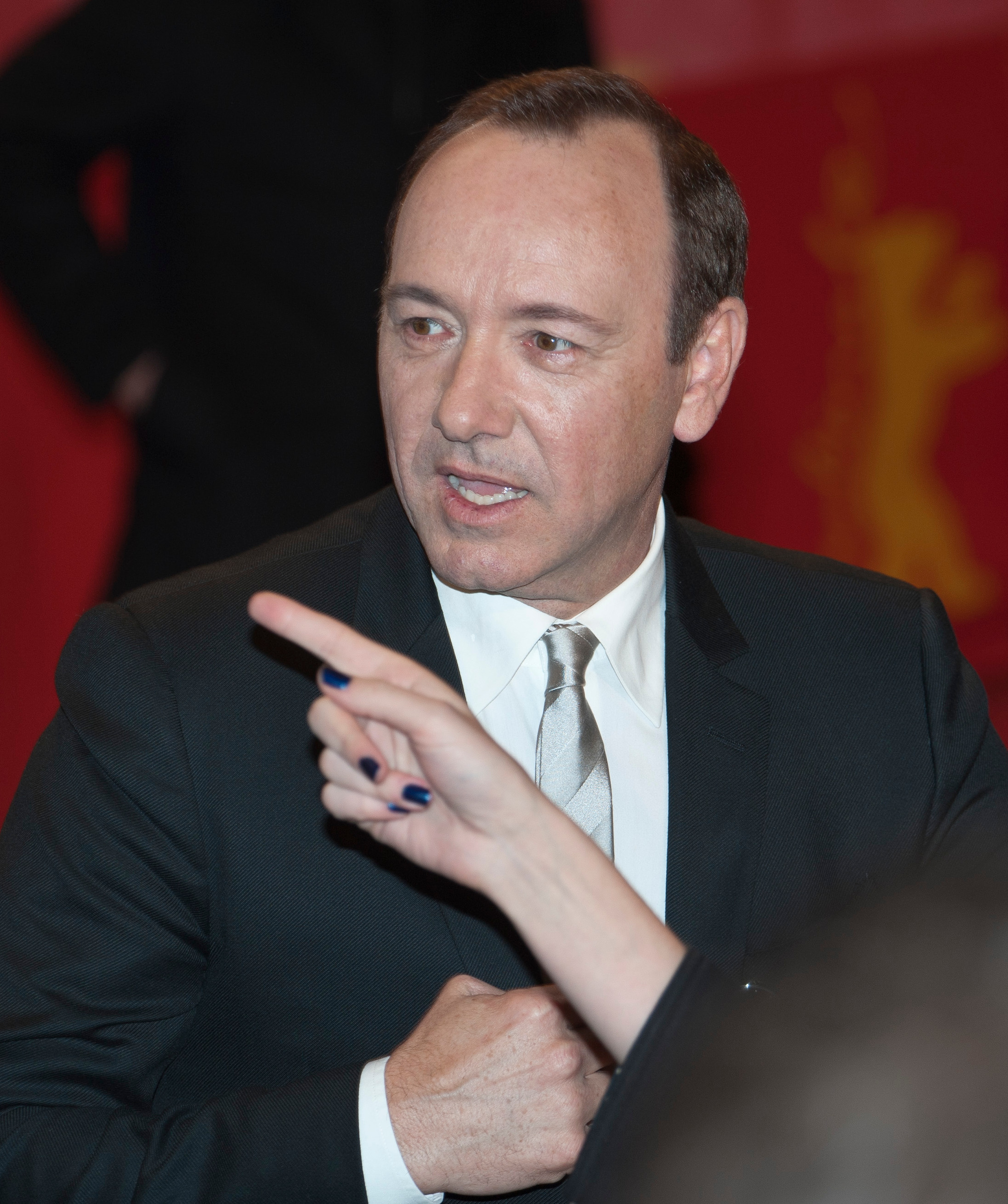 Kevin Spacey presents his new movie Margin Call at the Berlin Film Festival 2011